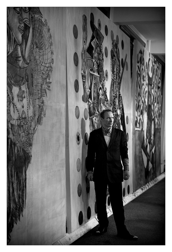 Wolfe von Lenkiewicz standing in front of his works.